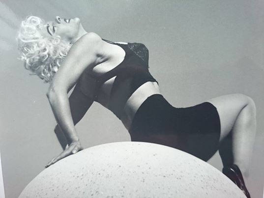 Tracey Bell, a Madonna impersonator, imitating her in Vogue